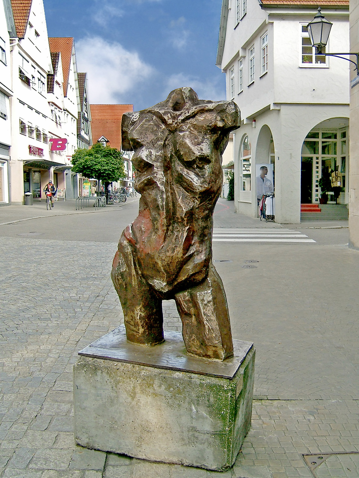 sculpture in Schorndorf, Germany